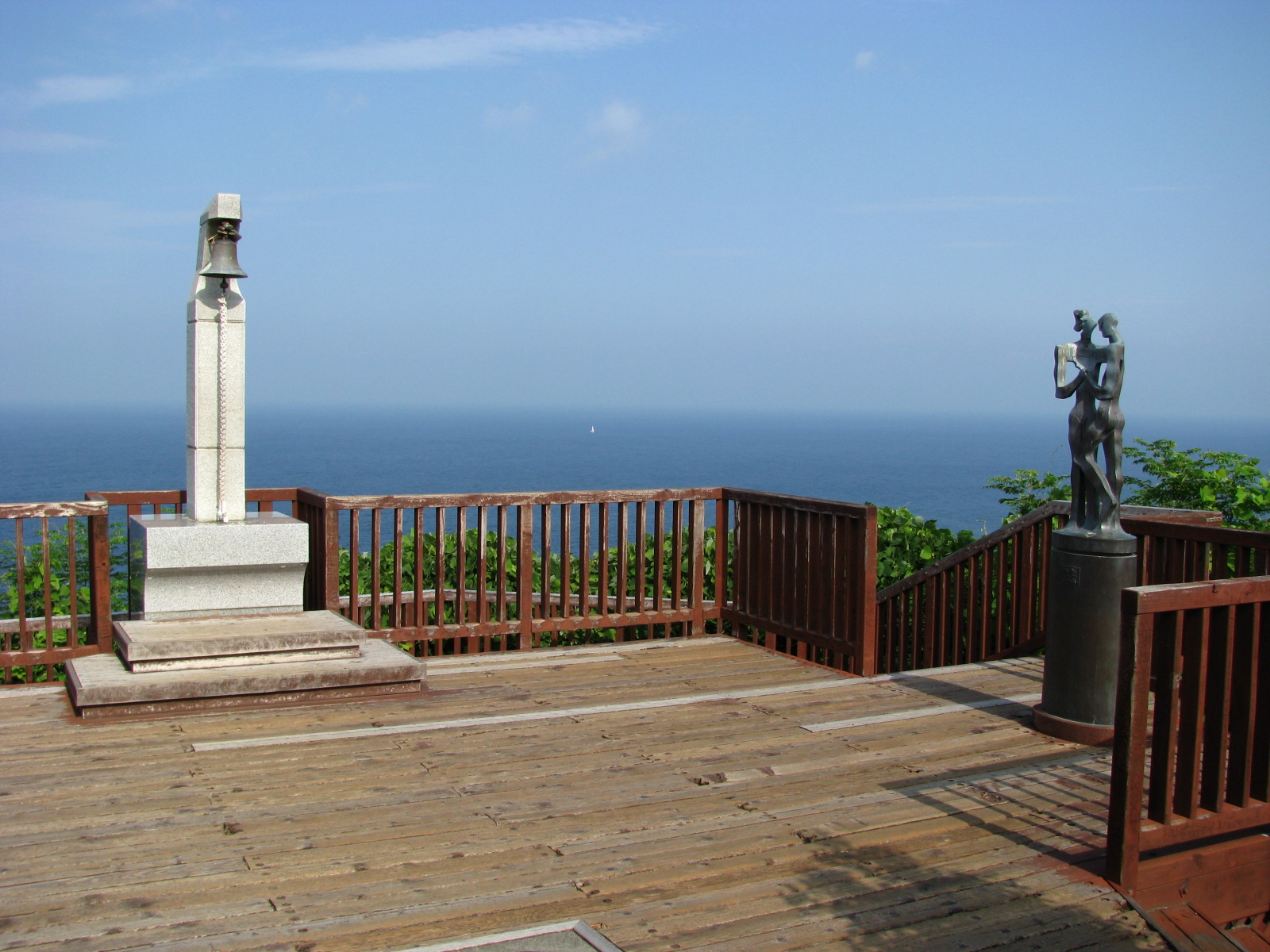 Left bell is the Love bell, And riget statue is the Amore (Loves) statue. The Koibito-misaki (Two Lovers Point) is located in Izu, Shizuoka, Japan.